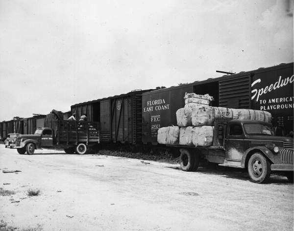 Local call number: N038717 Title: Produce being loaded into refrigerated cars Date: 195- Physical descrip: 1 photonegative; b&w; 4 x 5 in. Series Title: General collection Repository: State Library and Archives of Florida, 500 S. Bronough St., Tallahassee, FL 32399-0250 USA. Contact: 850.245.6700. Persistent URL